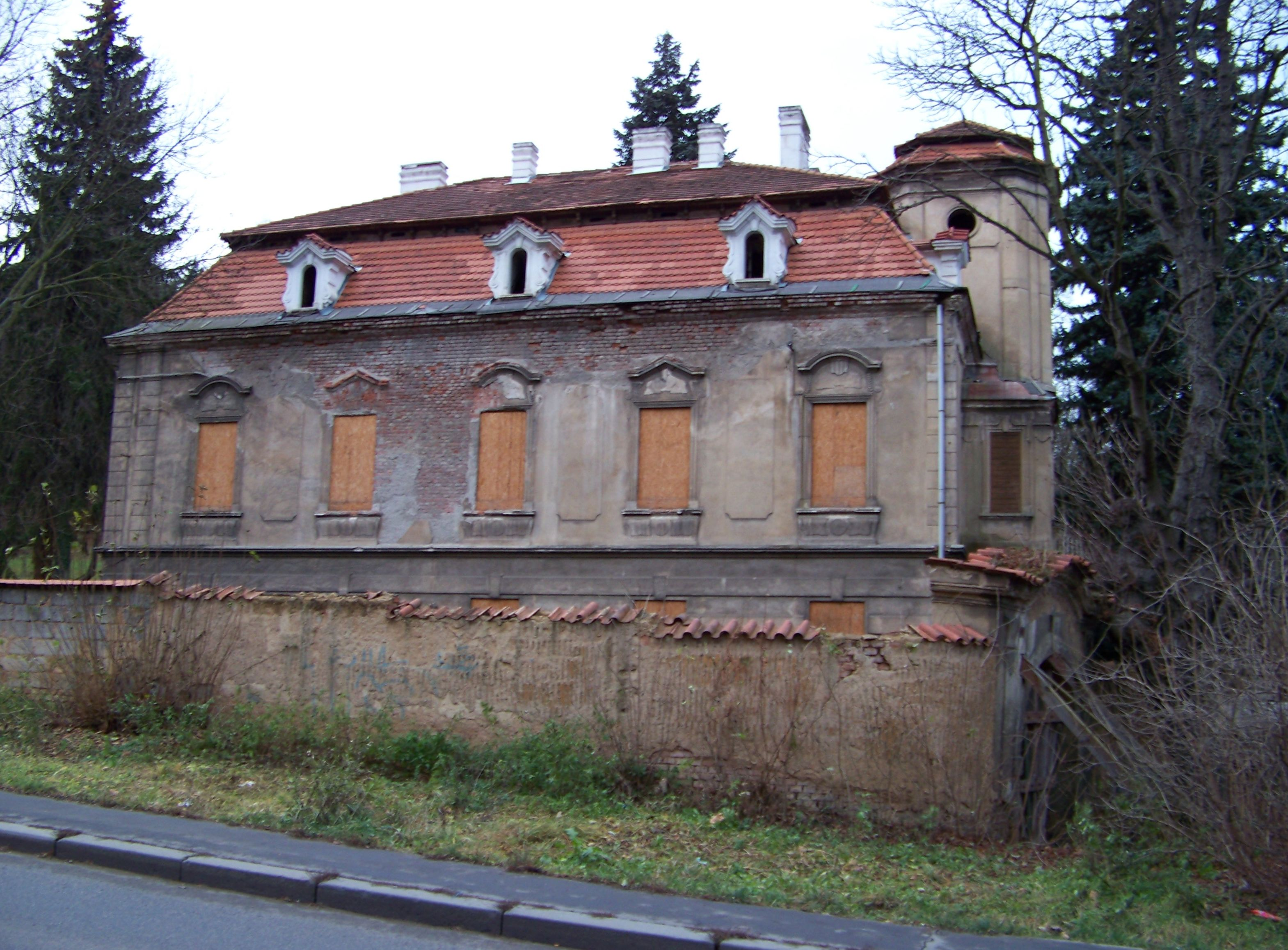 Prague-Košíře, the Czech Republic. Jinonická 1066/6, Turbová estate. - OpenStreetMap(Info)